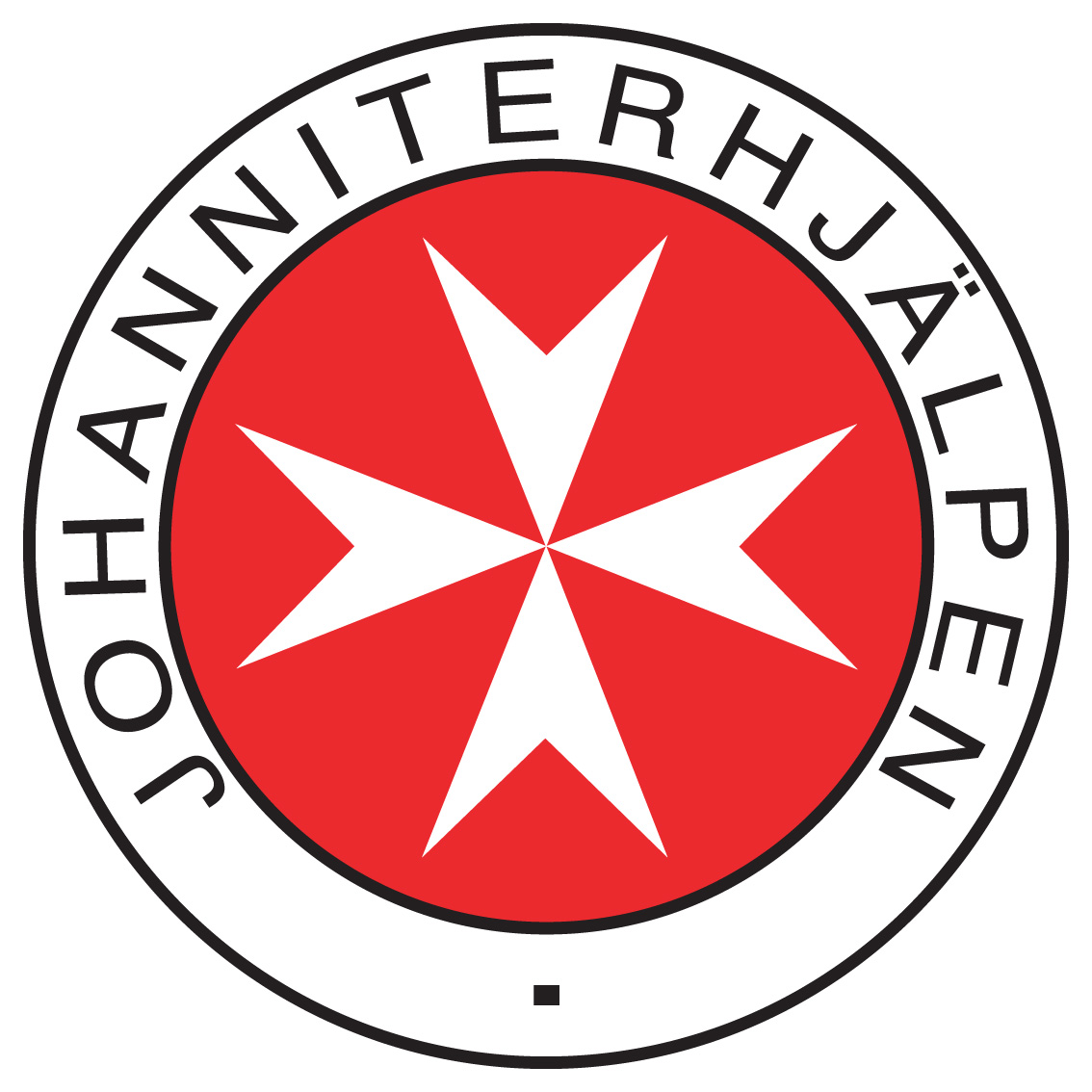 Logotype of the Swedish charity "Johanniterhjälpen" (St.John Aid, Sweden)